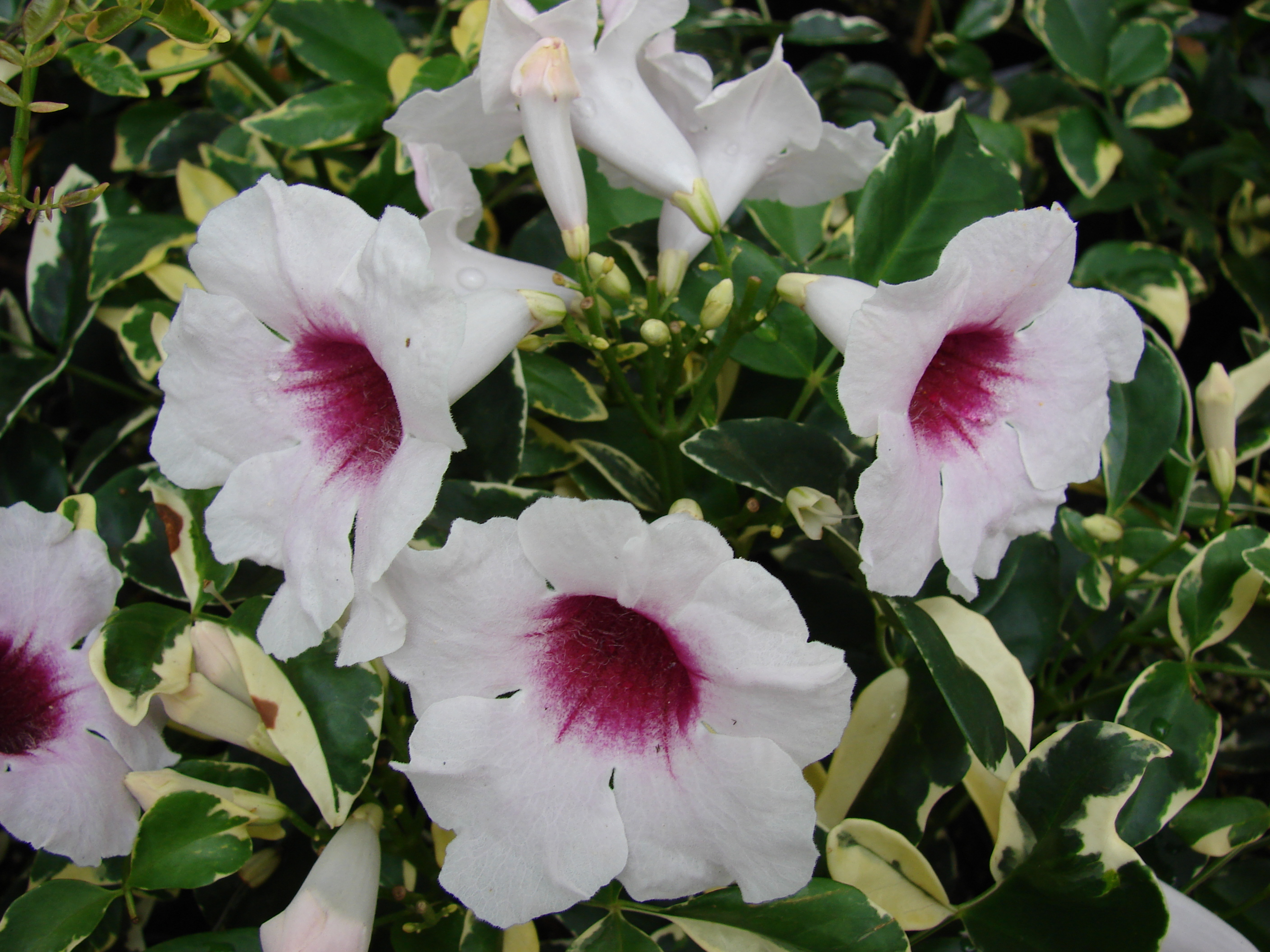 Pandorea jasminoides (flowers). Location: Maui, Kula Ace Hardware and Nursery